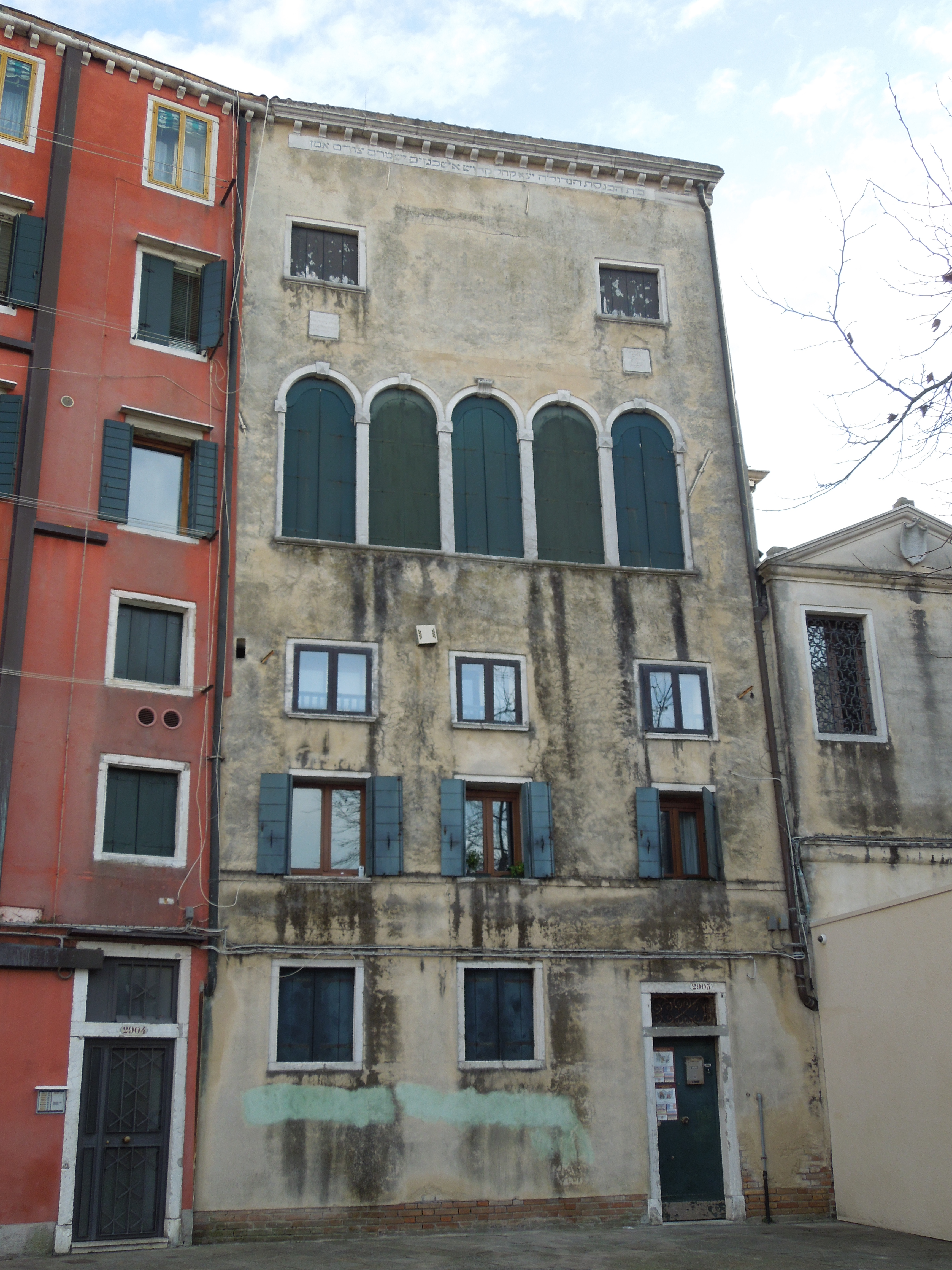 Exterior of the Great German Syangogue in Venice.